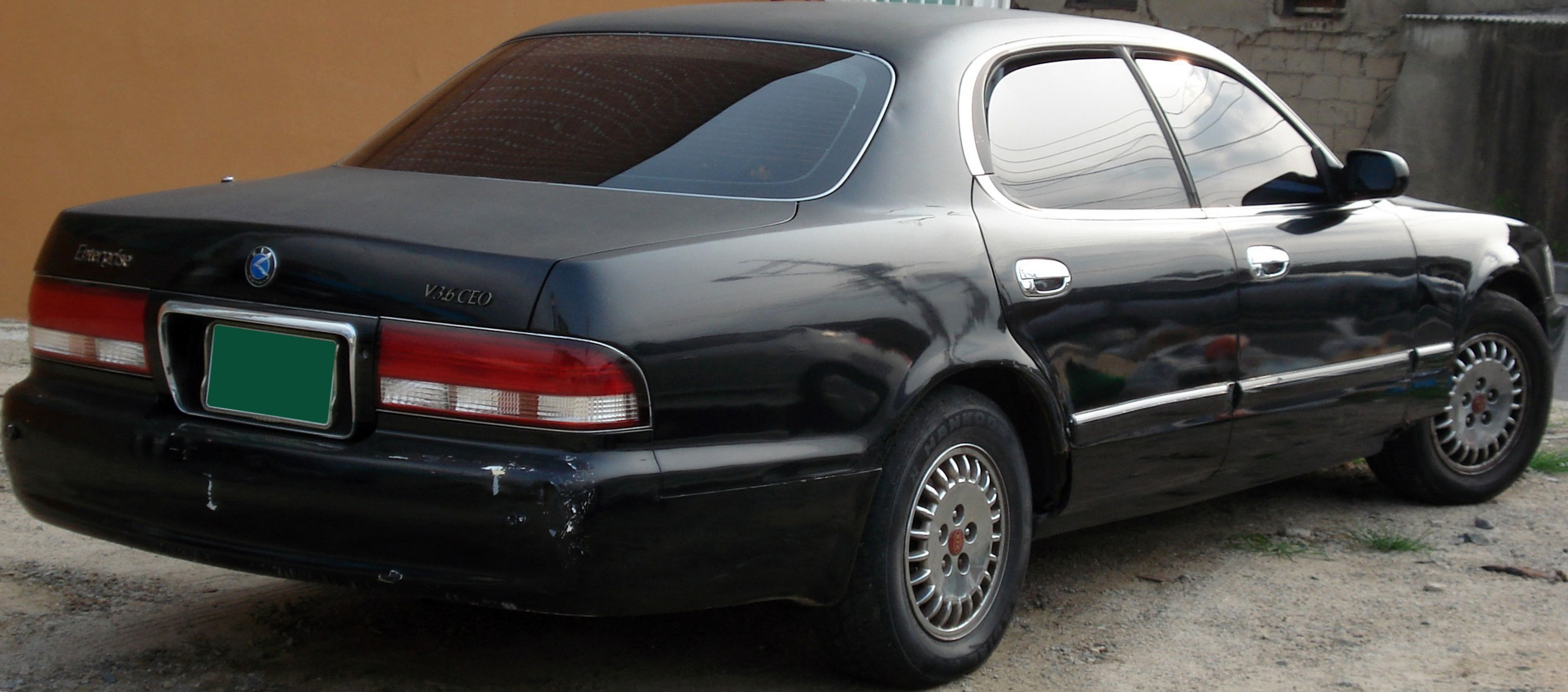 Kia Enterprise